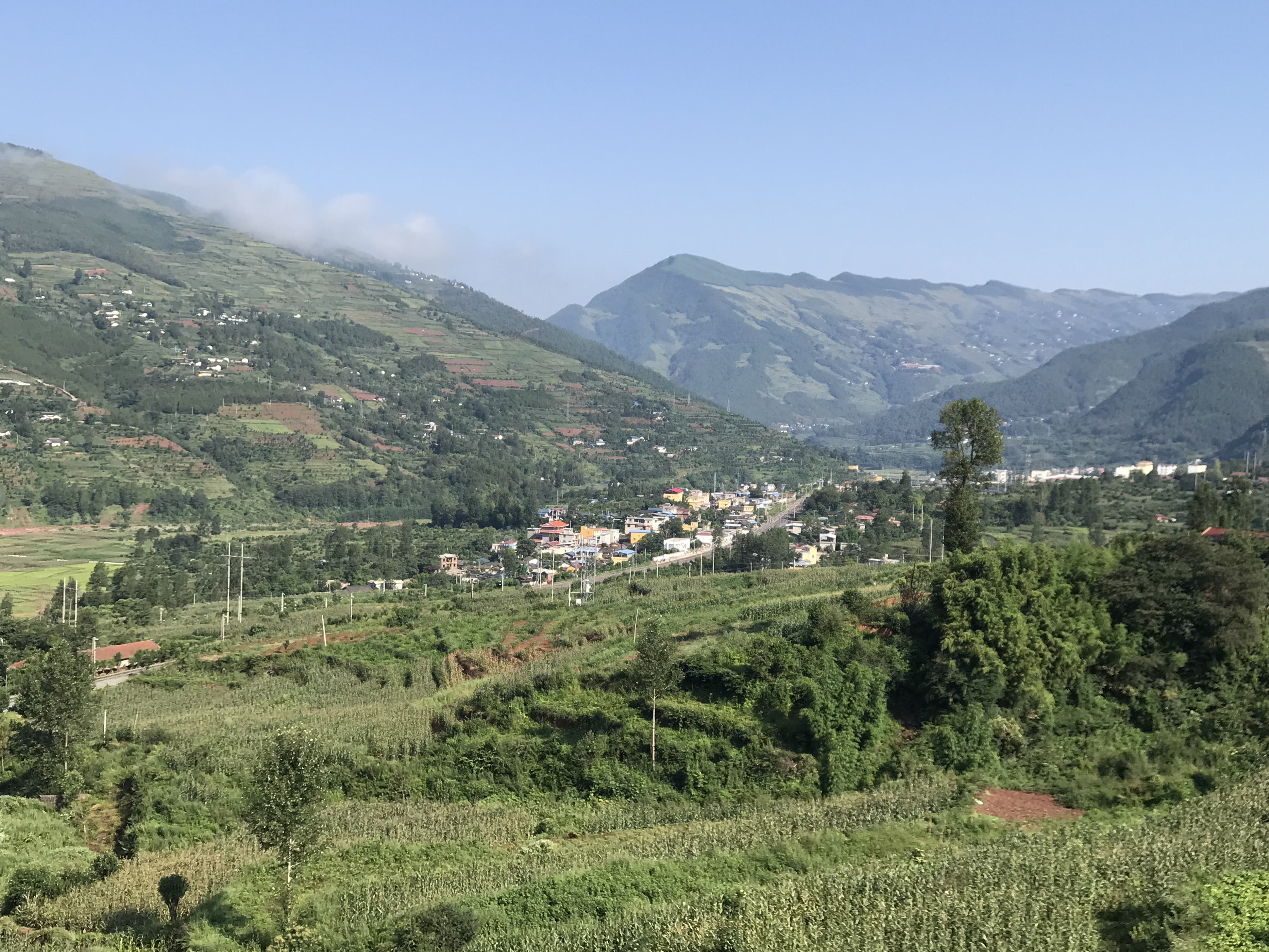 201908 Xinliang Station Viewed from the Upper Level of Lianghekou Spiral